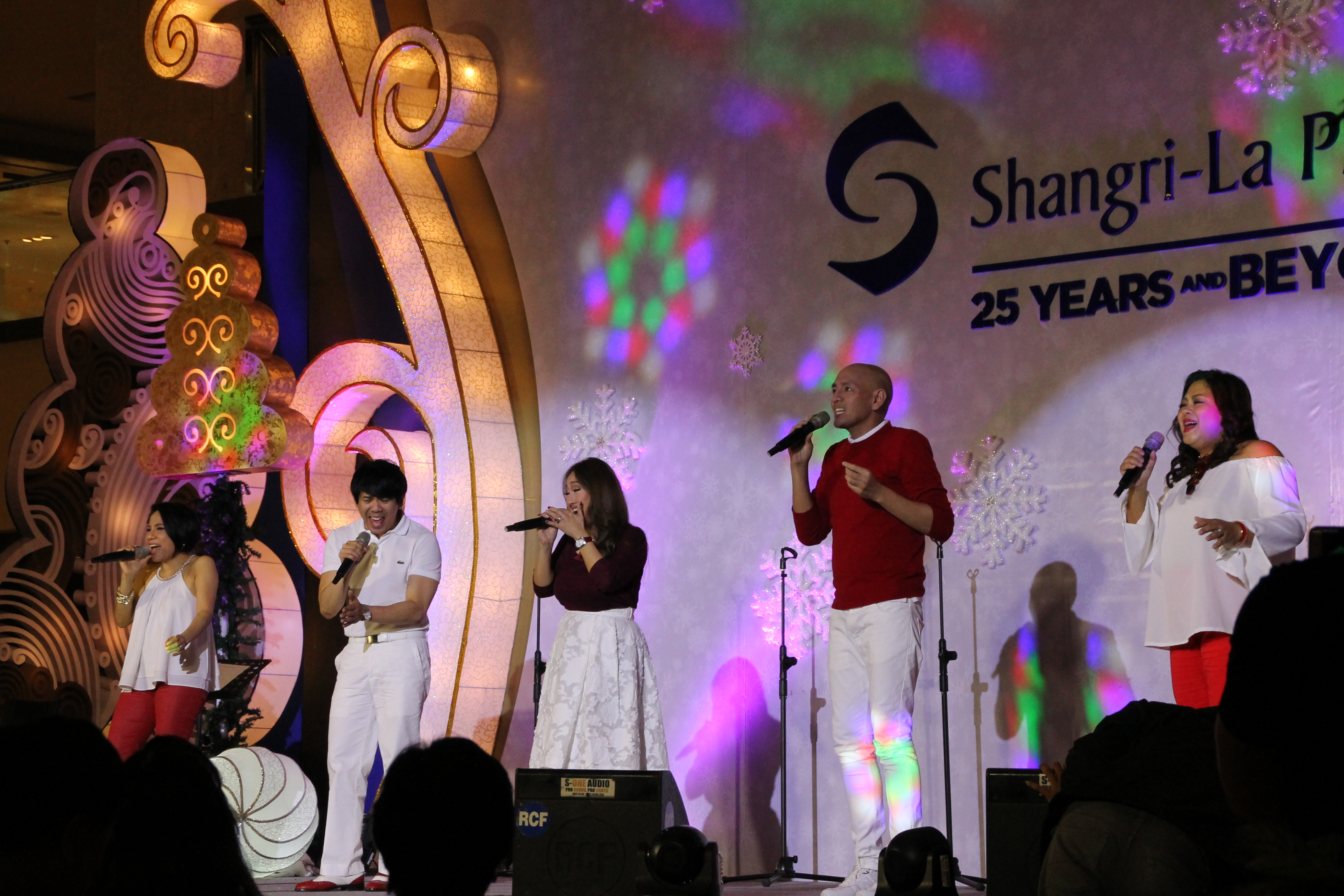 The CompanY performs in a mall show at the Shangrila Plaza Mall (Philippines)